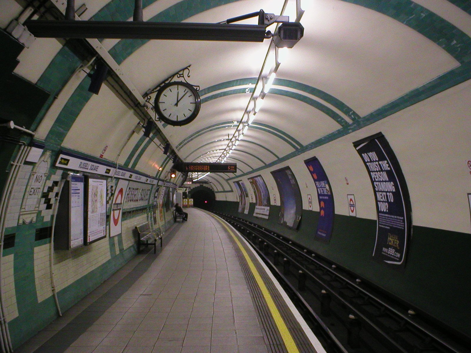 Looking down the length of a platform in Russell Square tube station on the London Underground.